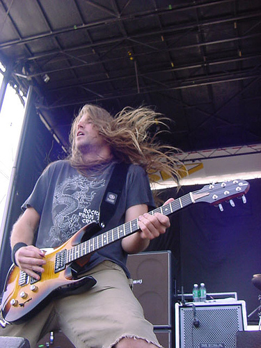 Willie Adler Mark Morton (Image description incorrect) of Lamb of God at Ozzfest, Jones Beach, New York July 14, 2004 [1]